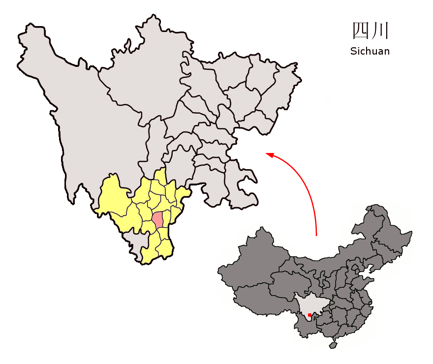 Location of Puge County (pink) and Liangshan Prefecture (yellow) within Sichuan province of China Map drawn in september 2007 using various sources, mainly : Sichuan province administrative regions GIS data: 1:1M, County level, 1990 Sichuan Counties map from